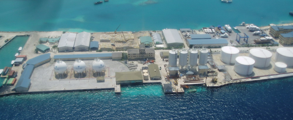 Aerial view of Thilafushi-2, depicting the most heavily industrialized area.